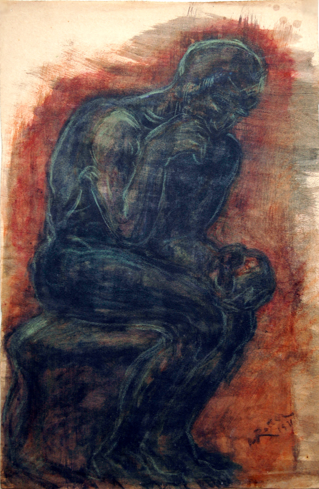 drawing on paper, Hamlet, 1938, by Leonard Rotter